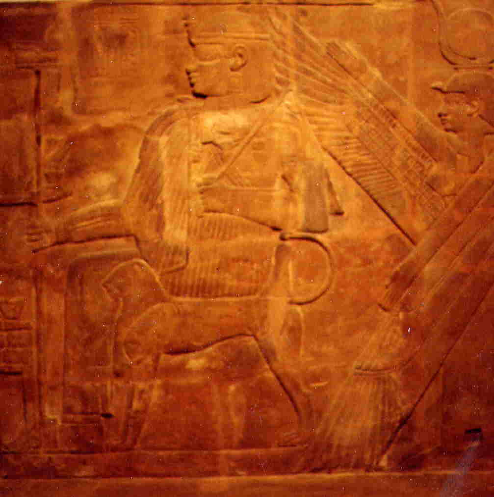 Relief from the chapel of king Amanitenmomide from Meroe